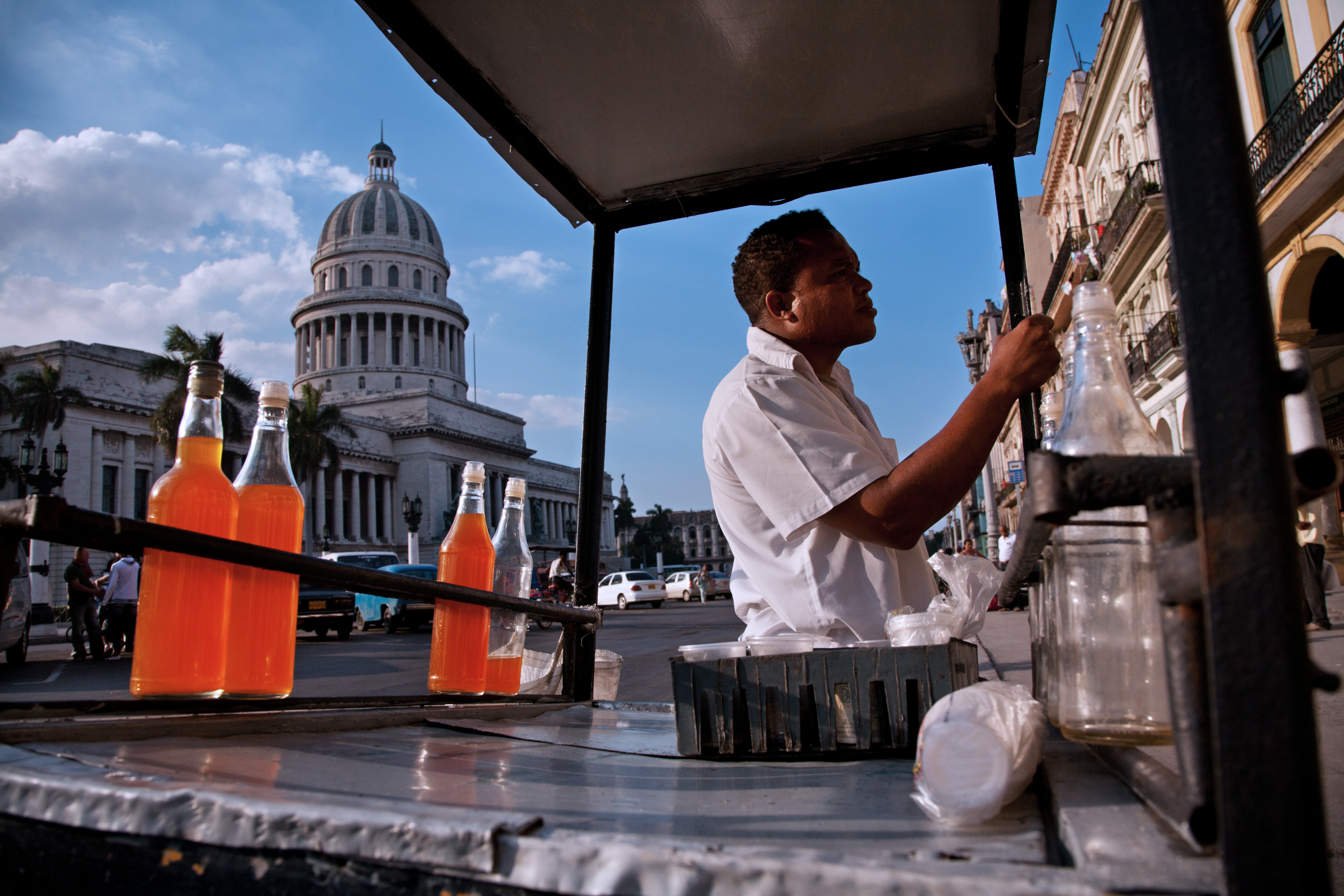 The carts of "Granizado" drift all over the city. But the only thing they share is the name and a bluish color. Every owner makes his own mix, and the color and composition of the drink is chosen freely by each one and checked by no one. Havana (La Habana), Cuba